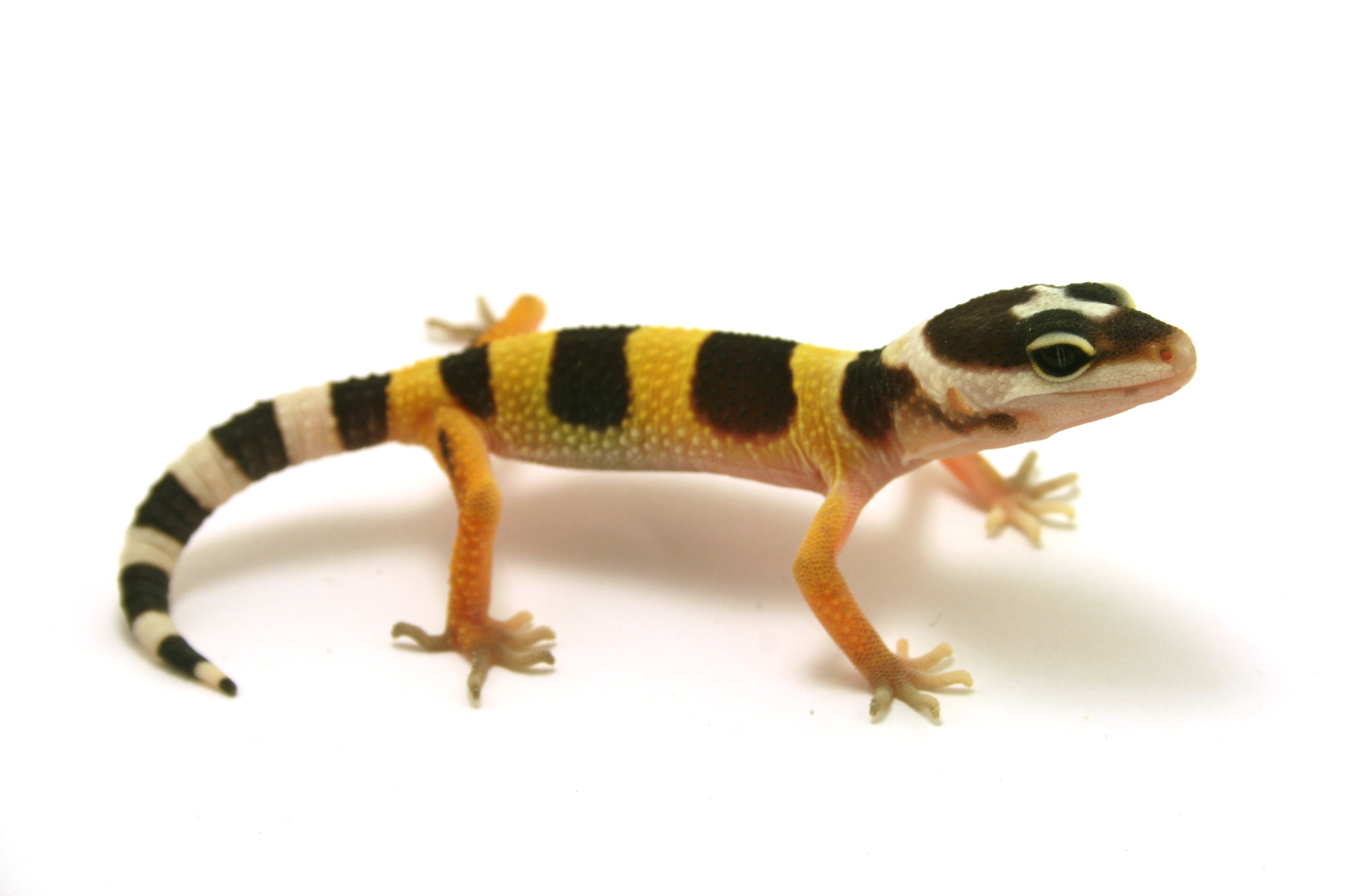 A juvenile leopard gecko on a white background.